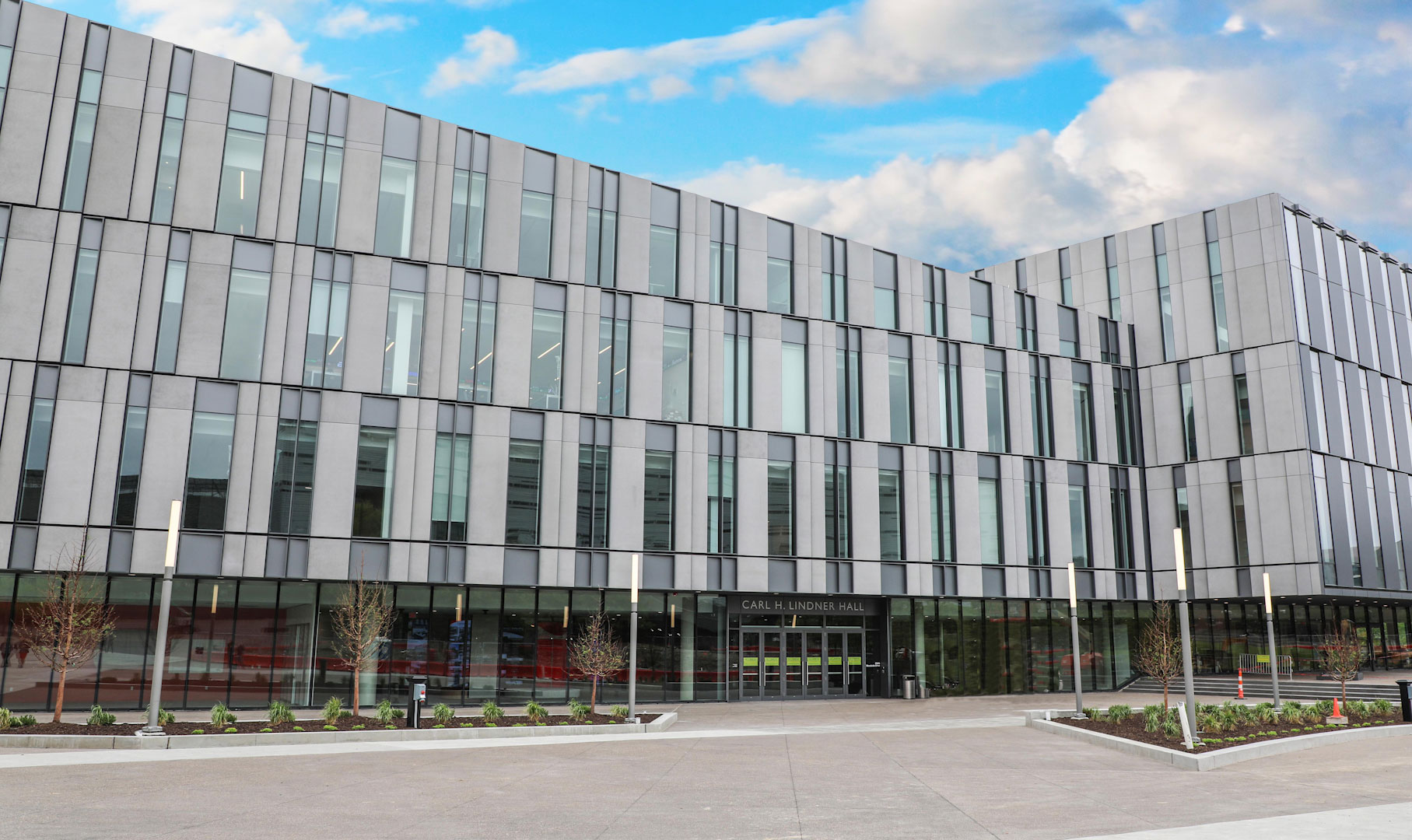 Exterior of Carl H. Lindner Hall